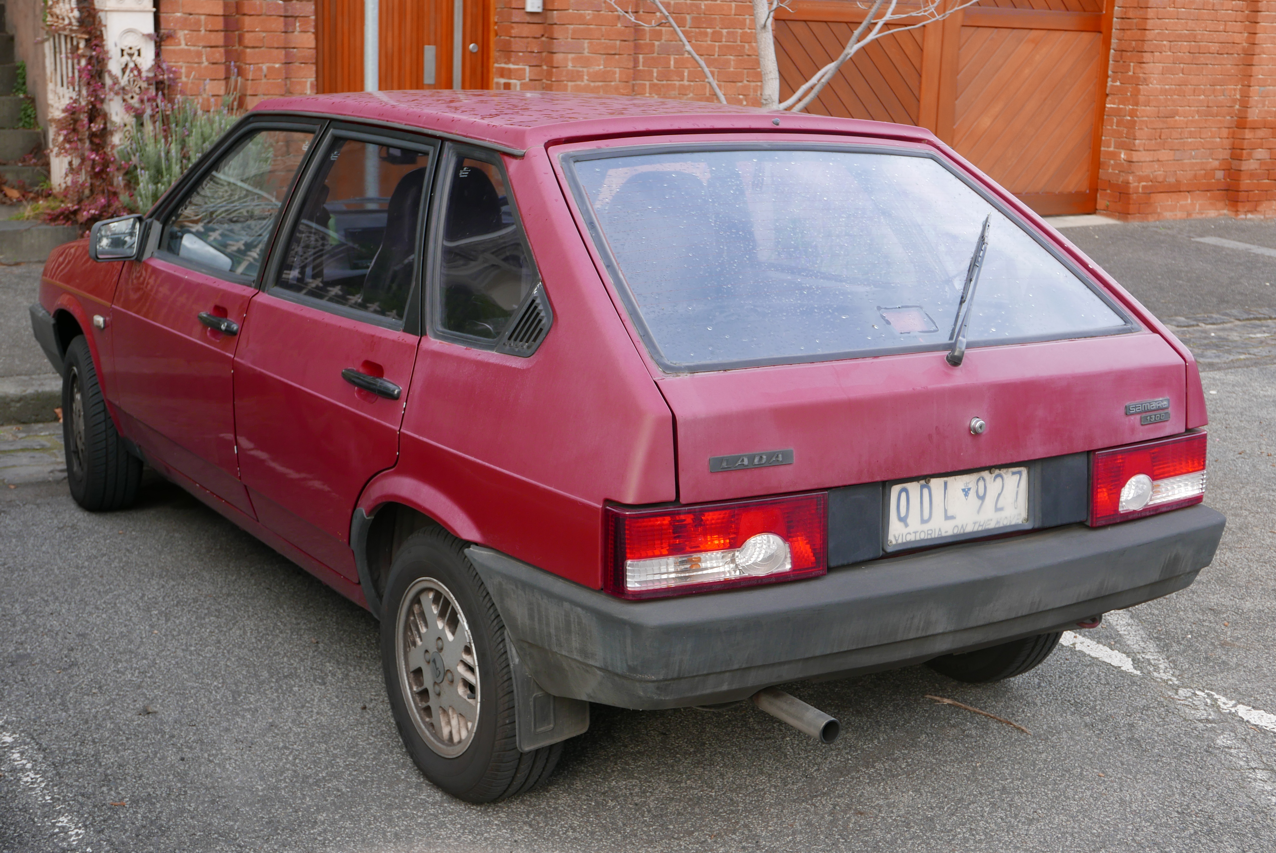 1991 Lada Samara 1300 5-door hatchback. The tail lights have been replaced with aftermarket examples. Photographed in Parkville, Victoria, Australia. Vehicle registration enquiry results Jurisdiction Victoria Registration QDL927 Chassis code XTA210980M0778003 Engine code 210830780488 Compliance date 1991-08 Year of manufacture 1991